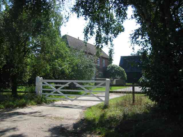 Farmhouse at Bibbsworth Hall Farm. The house and grounds appear well kept so someone must venture outside sometimes.